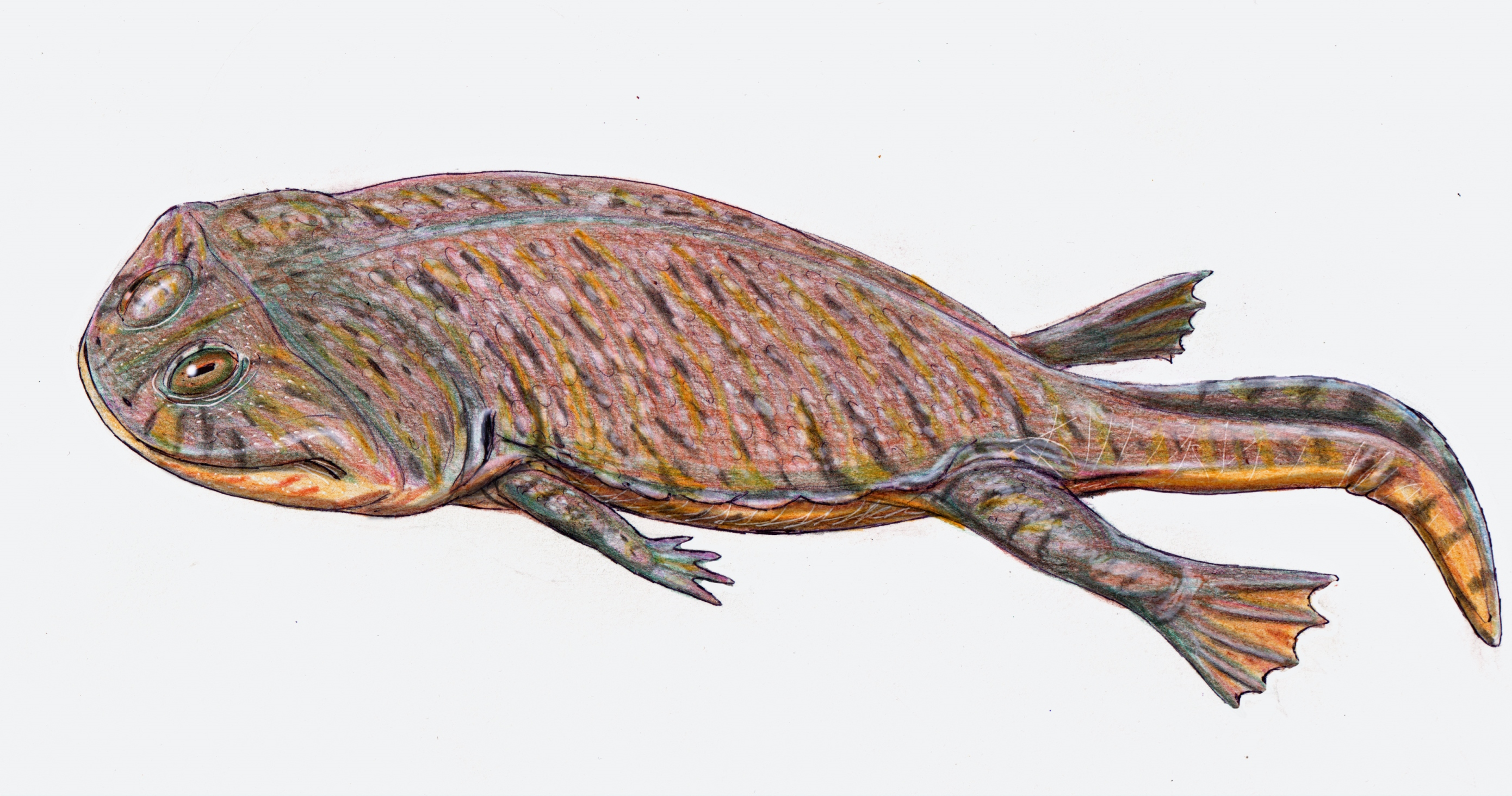 Plagiosternum - Plagiosauroid Temnospondyl from Middle Triassic of Europe and Russia